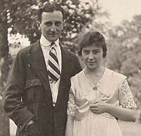 “Elizebeth Smith, ’15, and Wm. F. Friedman, Cornell, ’13. May 21, (1917). At home. Riverbank, Geneva, Ill.. where both are engaged on the Baconian Biliteral Cipher, on the estate of Colonel Fabyan,” marriage notice of a Hillsdale College Pi Beta Phi member in the December 1917 Arrow of Pi Beta Phi.